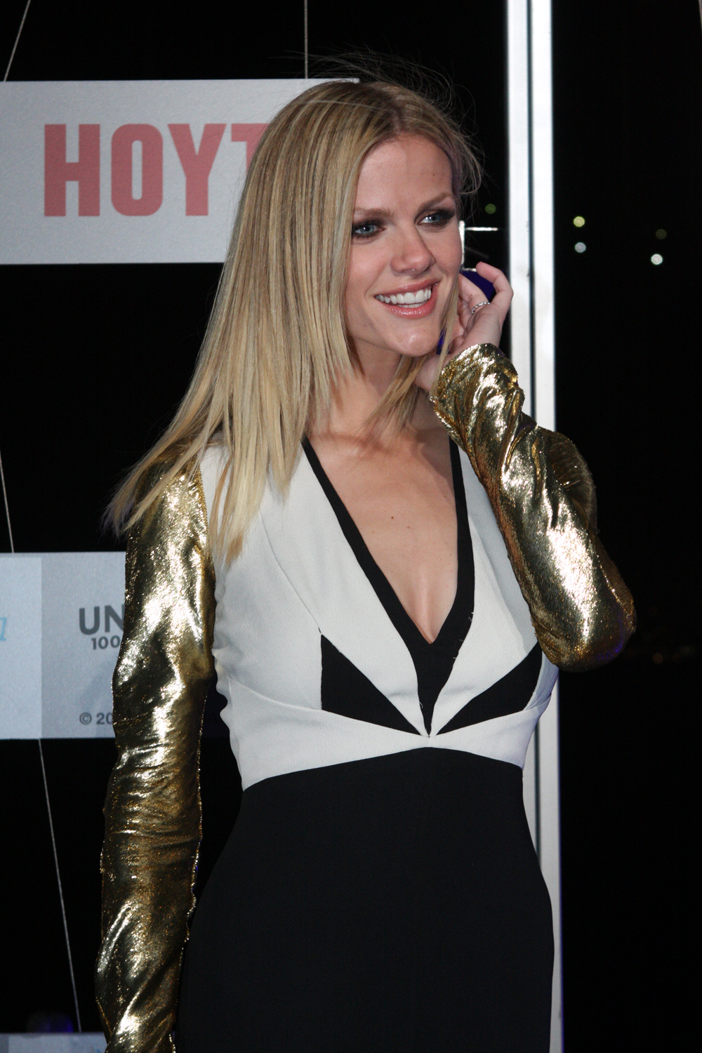 Brooklyn Decker at the Australian premiere of the movie Battleship, held at Luna Park in Sydney.